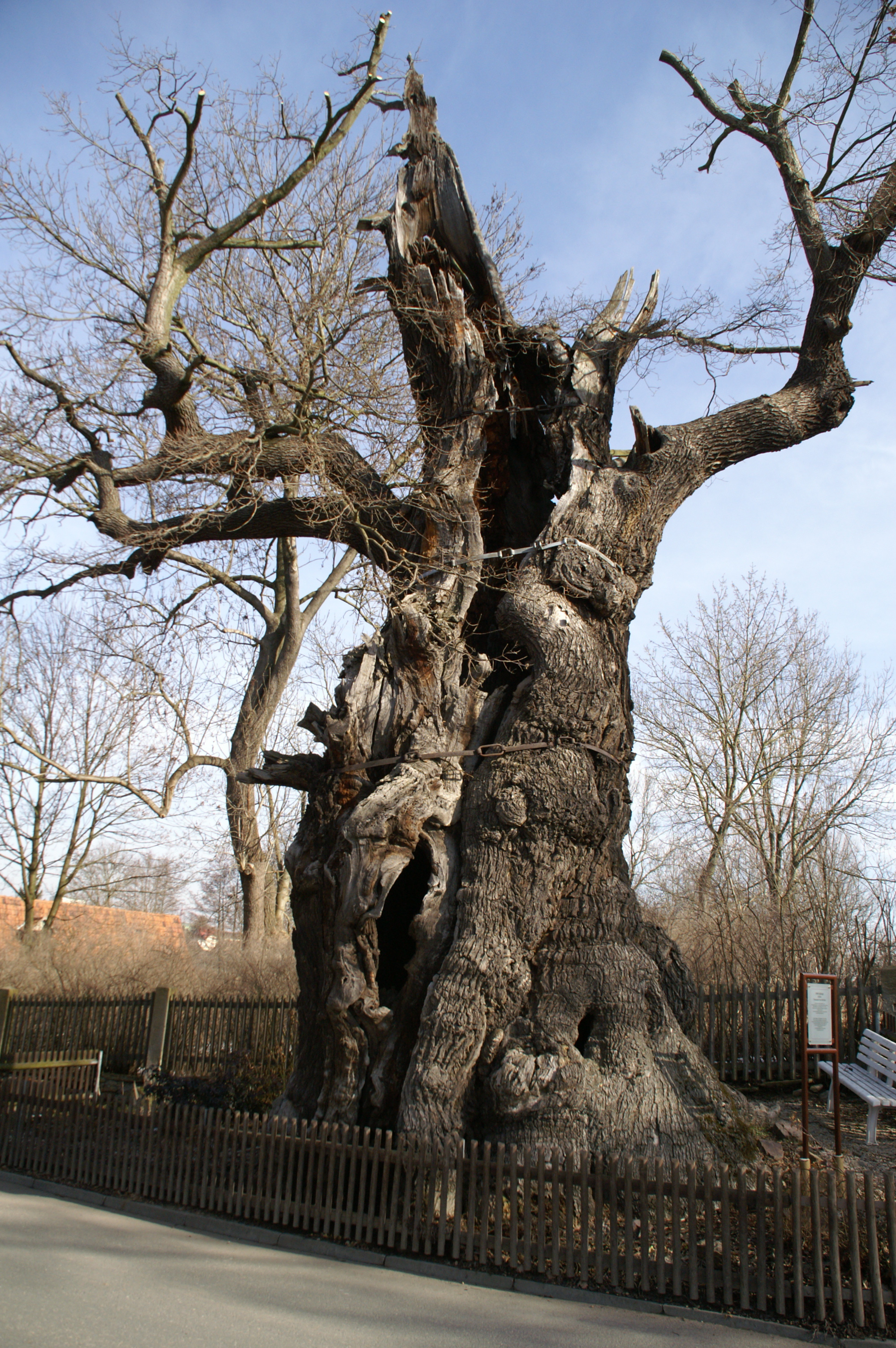 1.000 years old oak (Quercus robur) in Nöbdenitz near Schmölln, Germany.